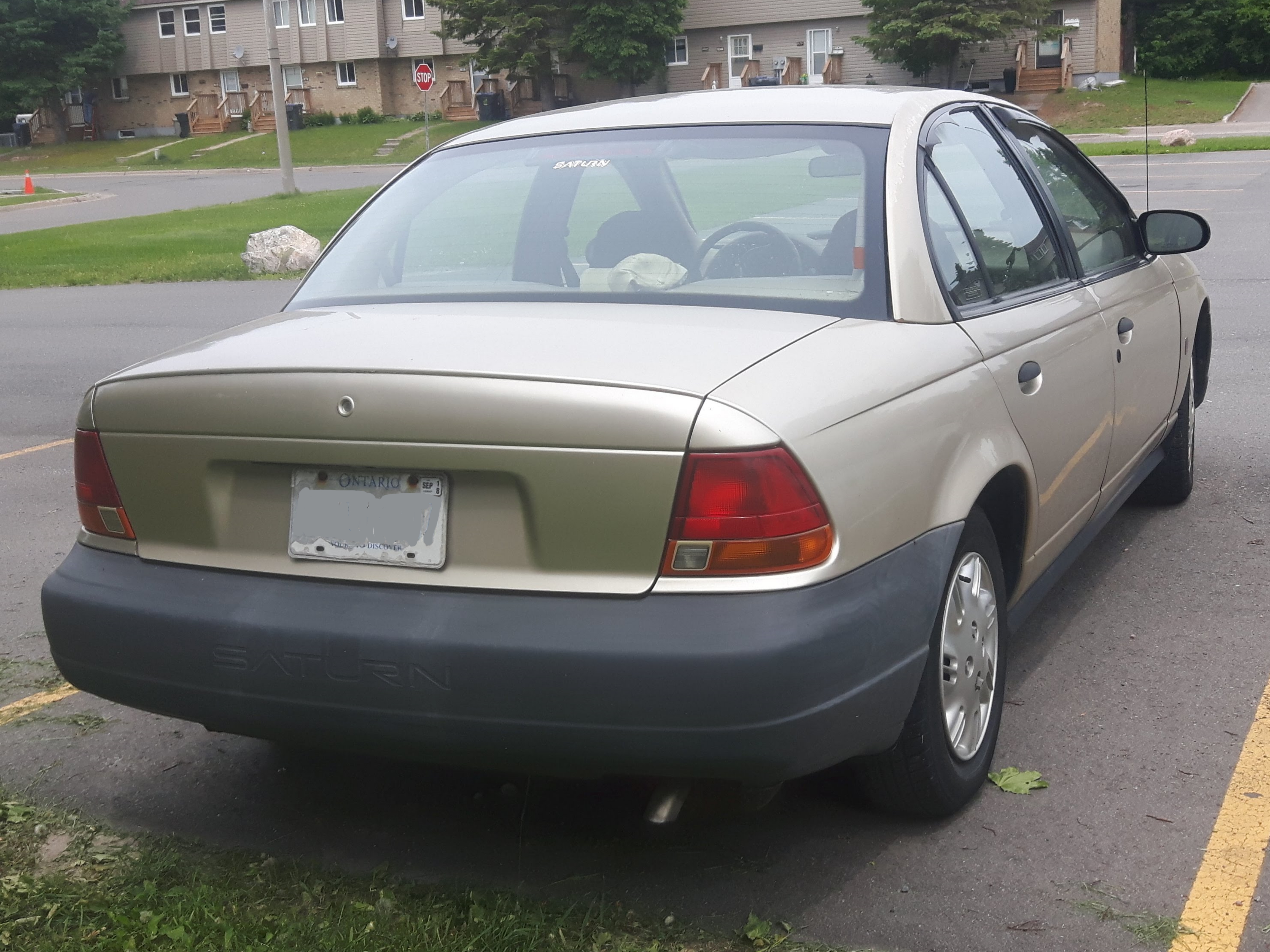 1996 - 1999 Saturn SL photographed in Sault Ste. Marie, Ontario, Canada